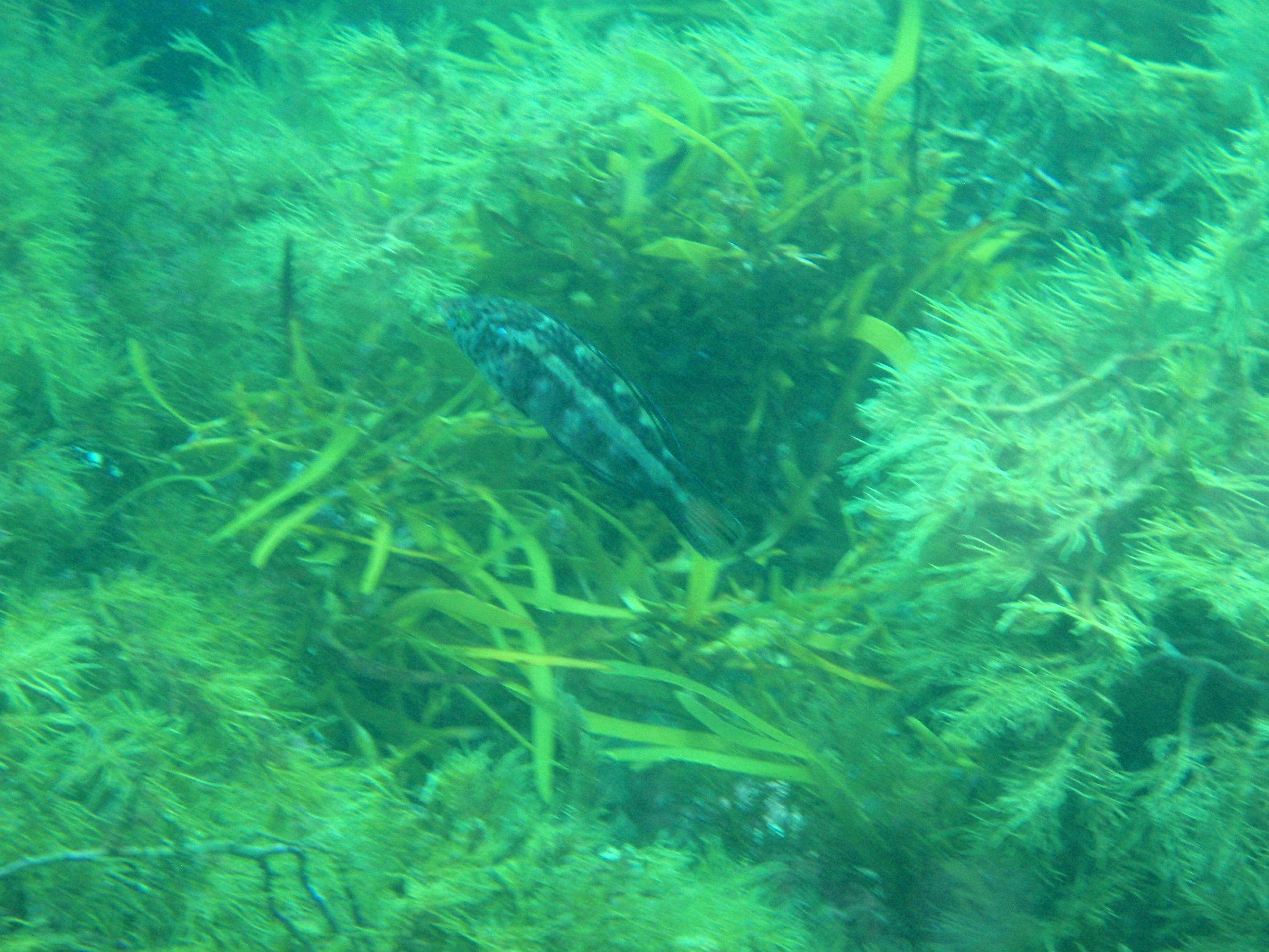 Pretty polly Dotalabrus aurantiacus at Wedge Island, South Australia